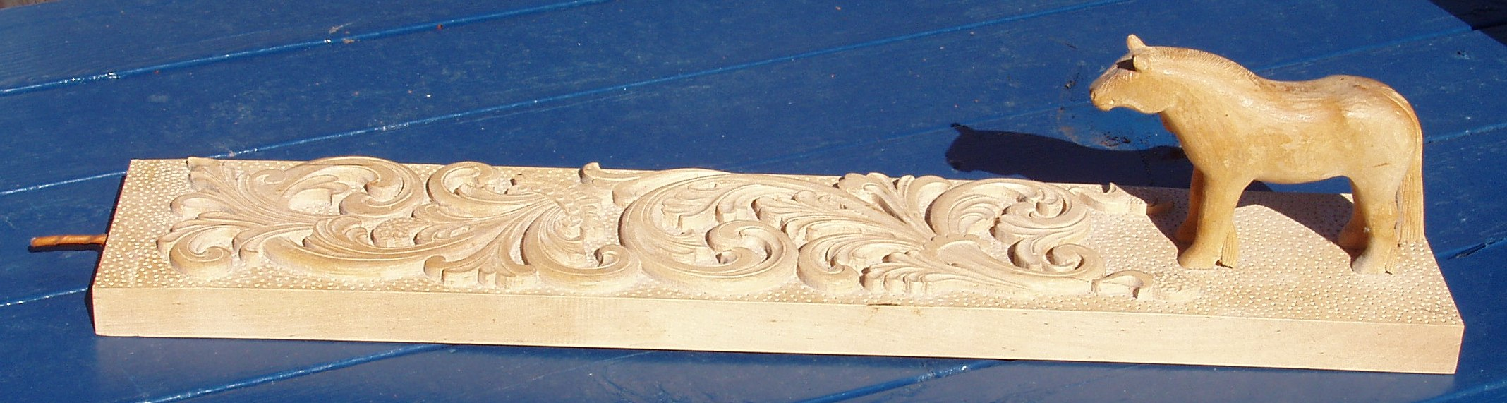 "mangletre" carved by Bjarne Spjelkavik, Vefsn, 1992